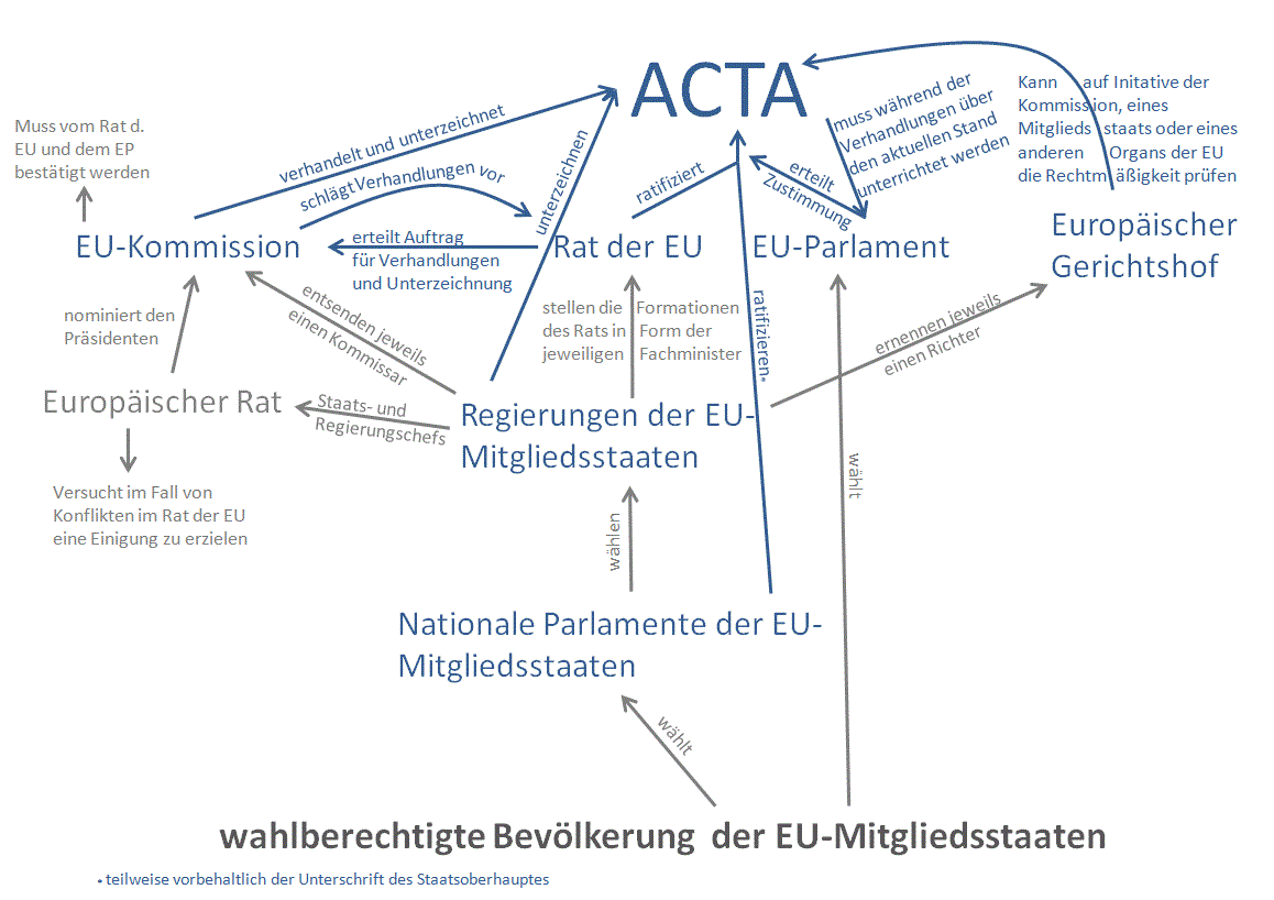 Process of ratification of ACTA in the polical system of the European Union Blue: directly involved in the ratification process Grey: indirectly involved in the ratification process